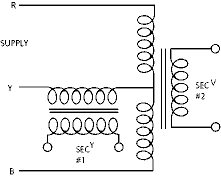 Lidhja e Skotit